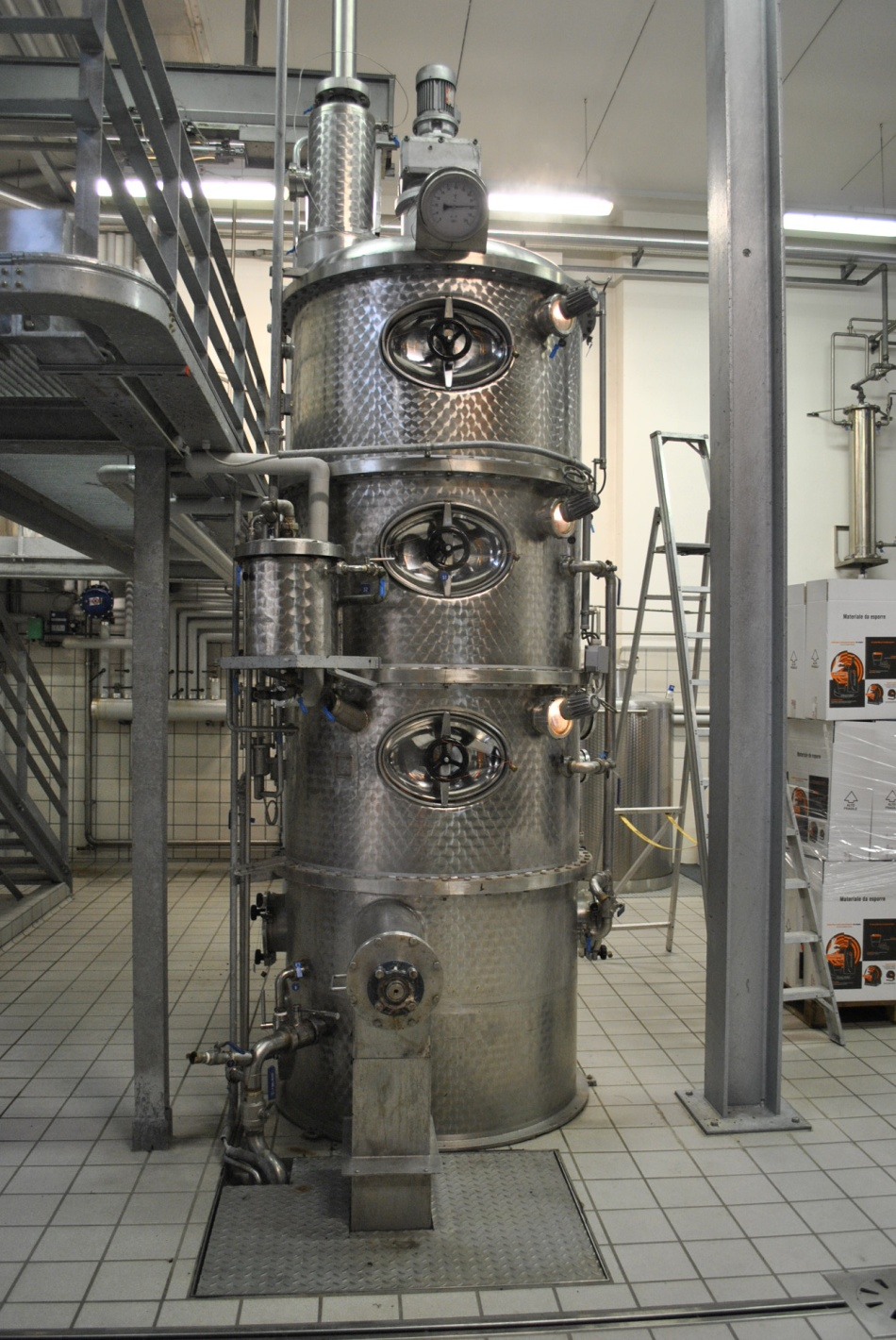 Distillation column for the production of grappa.